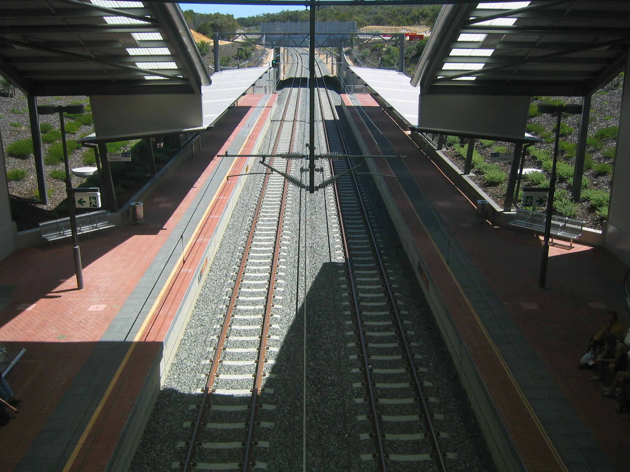 The platform level of Kwinana Station, taken from the concourse level of its station.